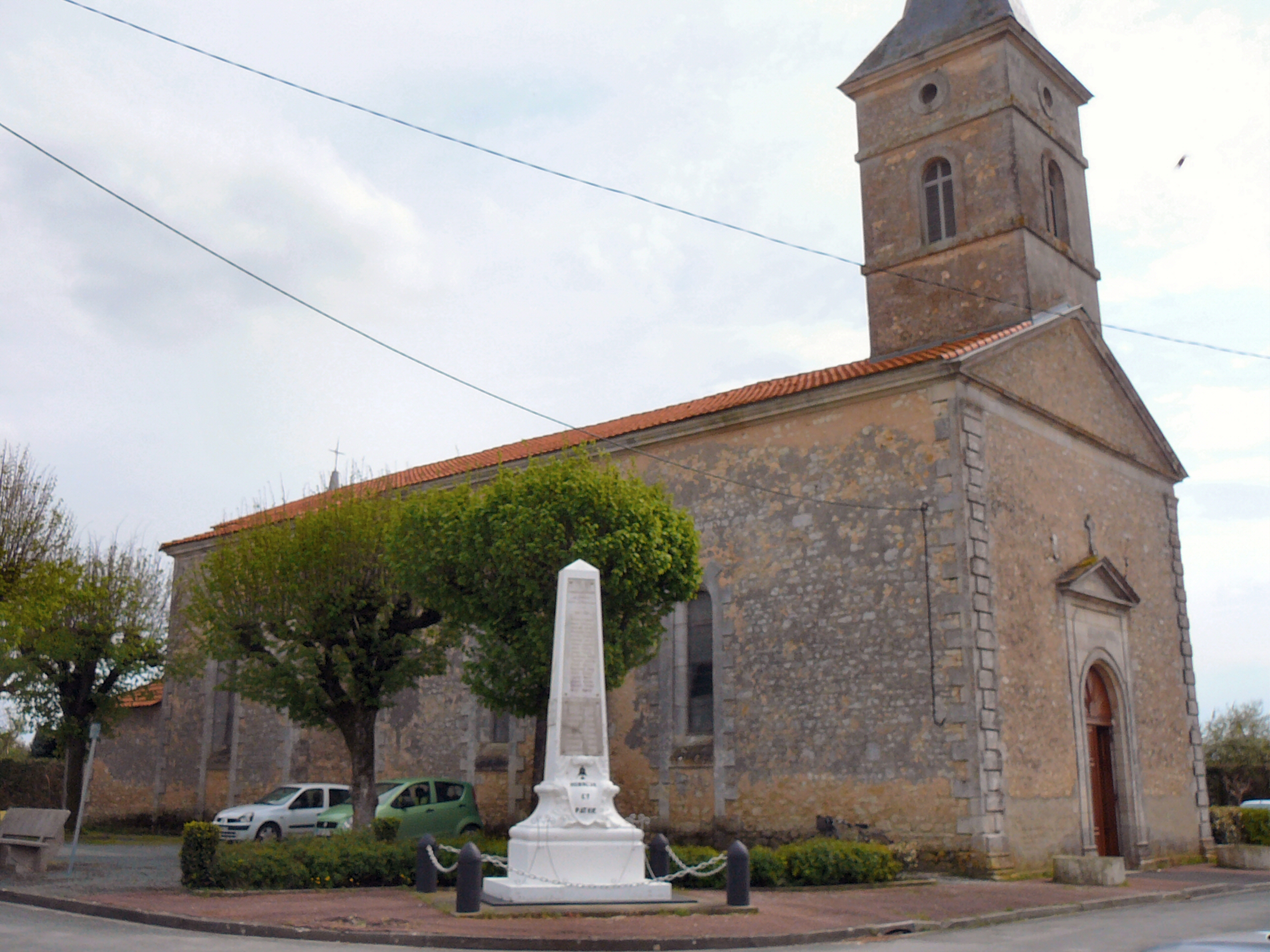 Catholic church build in 1847 (Église Notre-Dame), and war memorial. March 2009. Nieulle-sur_Seudre, Charente-Maritime (17), Poitou-Charentes, France, Europe.